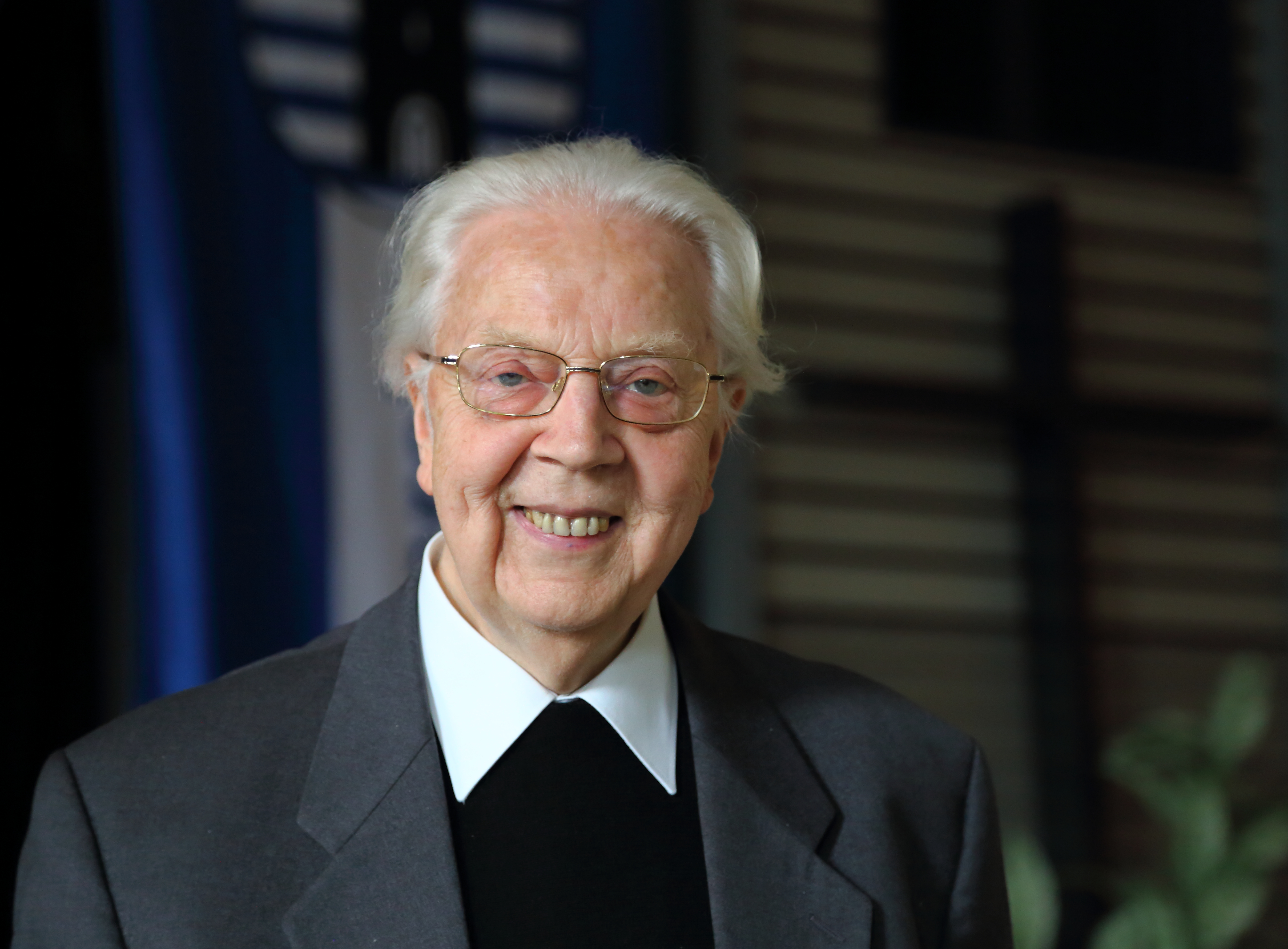 Father Werner Heukamp at the reception hold on the occasion of his 85th birthday and his 20 years of serving in Recke at the Dio-Jugendheim in Recke, Kreis Steinfurt, North Rhine-Westphalia, Germany.